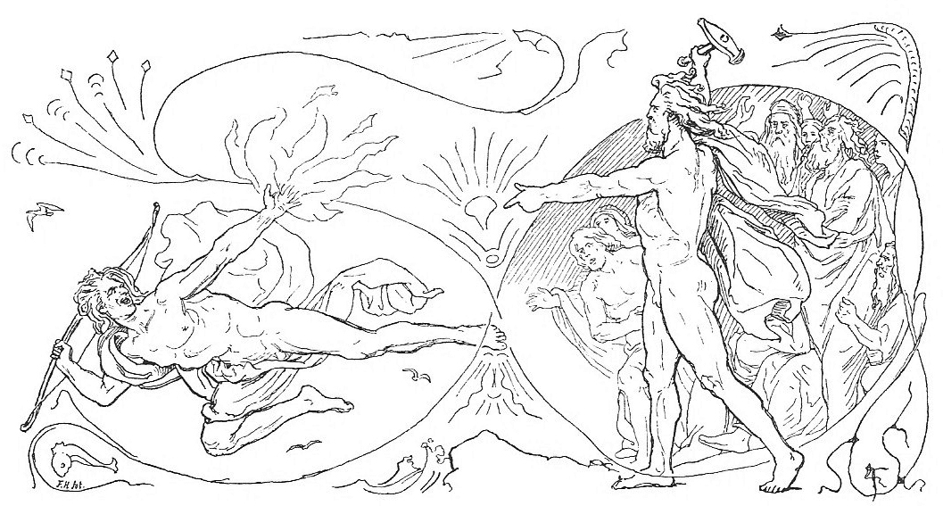 Loki leaves the hall and threatens the Æsir with fire, as told in Lokasenna. Thor stands to the right, brandishing his hammer, Mjöllnir.